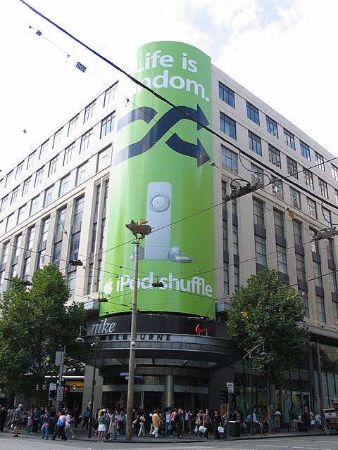 iPod shuffle advertising in Melbourne, Australia